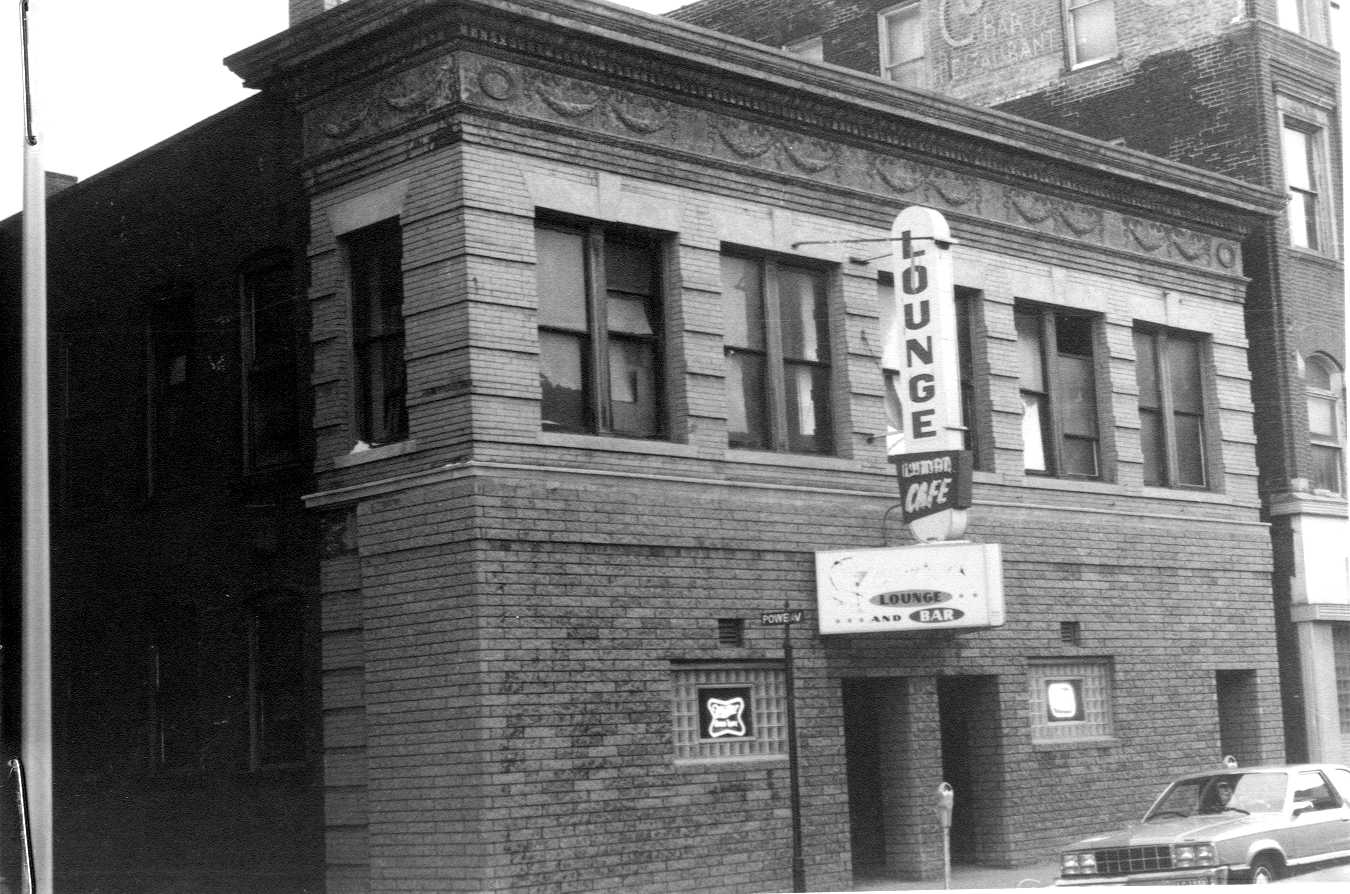 Henking Hotel and Cafe, Springfield, Massachusetts. This is the cafe; both buildings have been demolished.